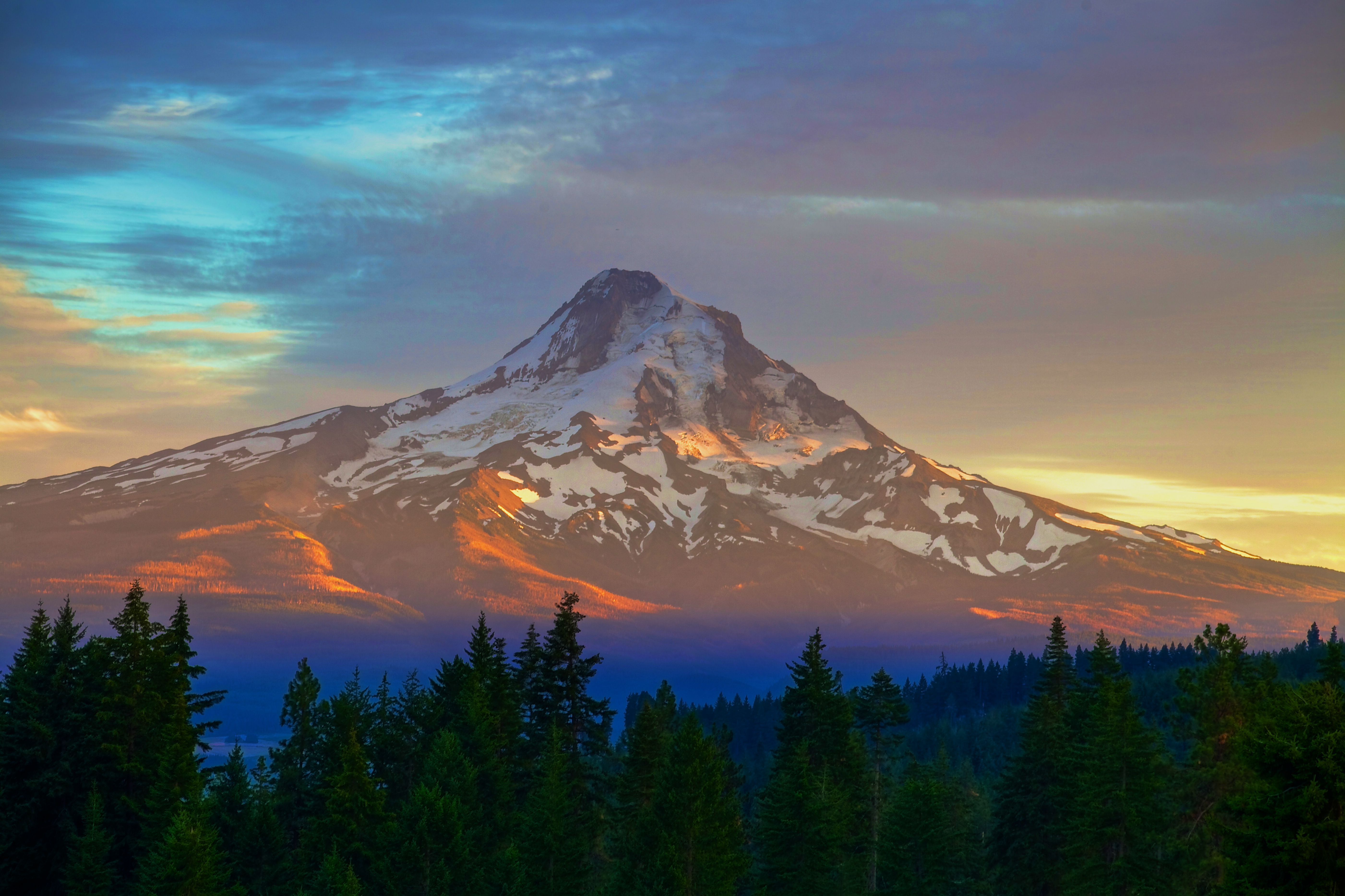 Not a very creative title, but this is Mt. Hood, near Hood River, Oregon (go figure). Was looking to take some pictures on the last day of my trip out there this summer, so decided to catch a sunset. However, I misjudged the timing and ended up finding a nice spot about 3 hours before the sun even went down. Had 2 cameras, and 3 lenses, so basically I just twiddled my thumbs and took about 1000 pictures. Now, I can't decide which ones I like. Took me about 20 minutes to pick this one out. You'll probably see a dozen different ones in the coming months. White boy problems, eh? Zach Dischner Photography | 500px